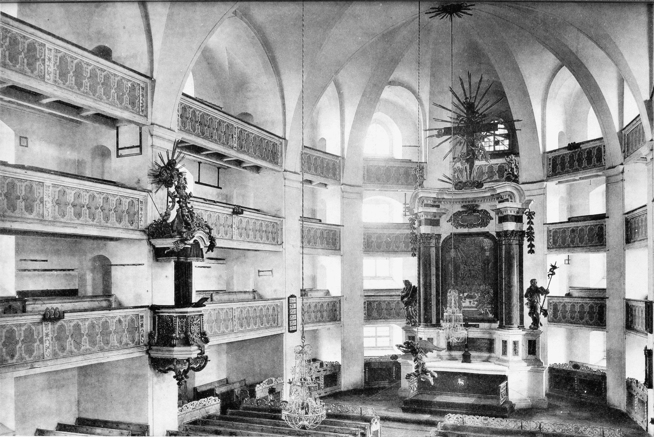 Interior of the church in Niederoderwitz - Oderwitz